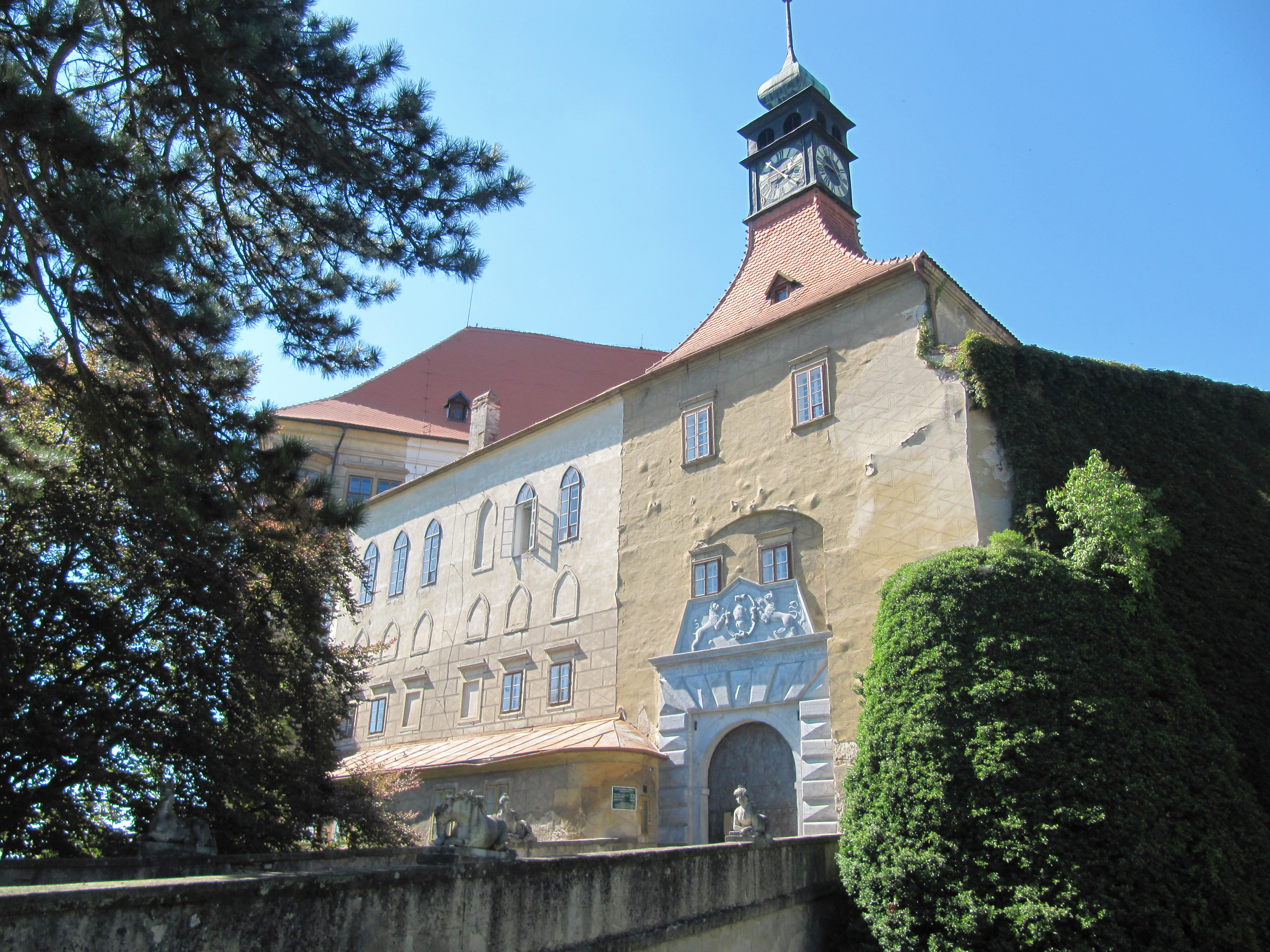 Náměšť nad Oslavou in Třebíč District, Czech Republic. Castle, entrance.